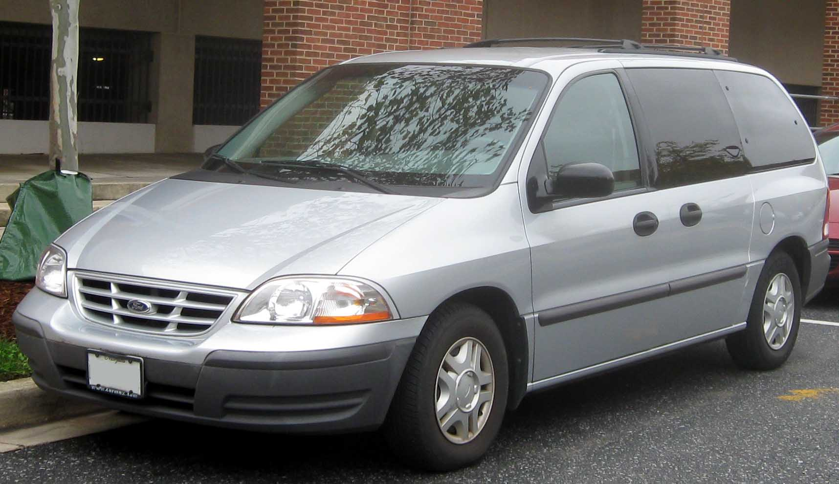 1999-2000 Ford Windstar photographed in College Park, Maryland, USA.